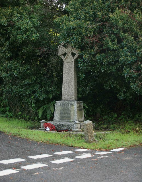 On the road Junction War memorial situated on the road junction.